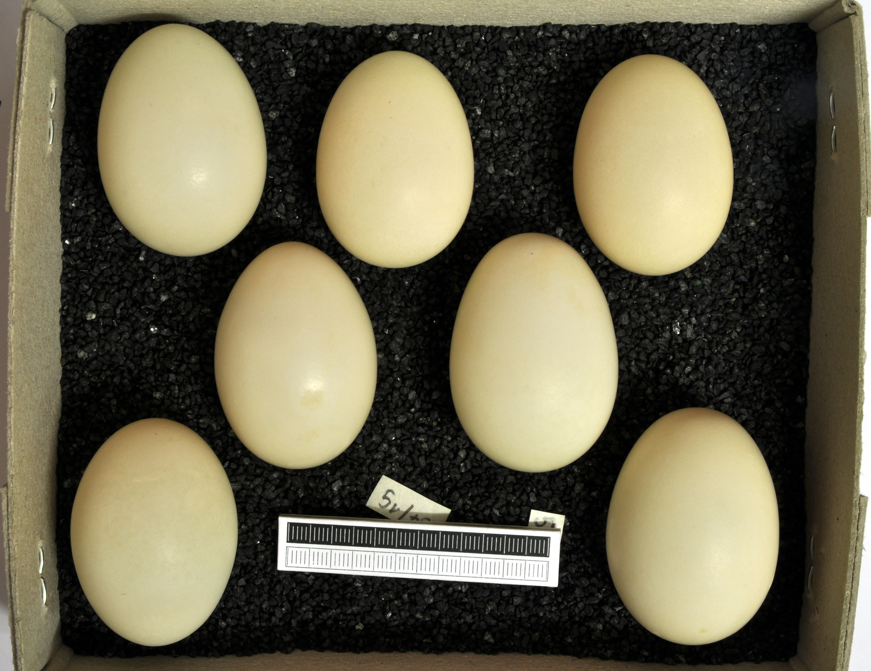 Northern shoveler Anas clypeata, egg, Coll. Museum Wiesbaden, Origin: Ismaning, Bavaria, 18.05.1973, leg. W. Abelmann